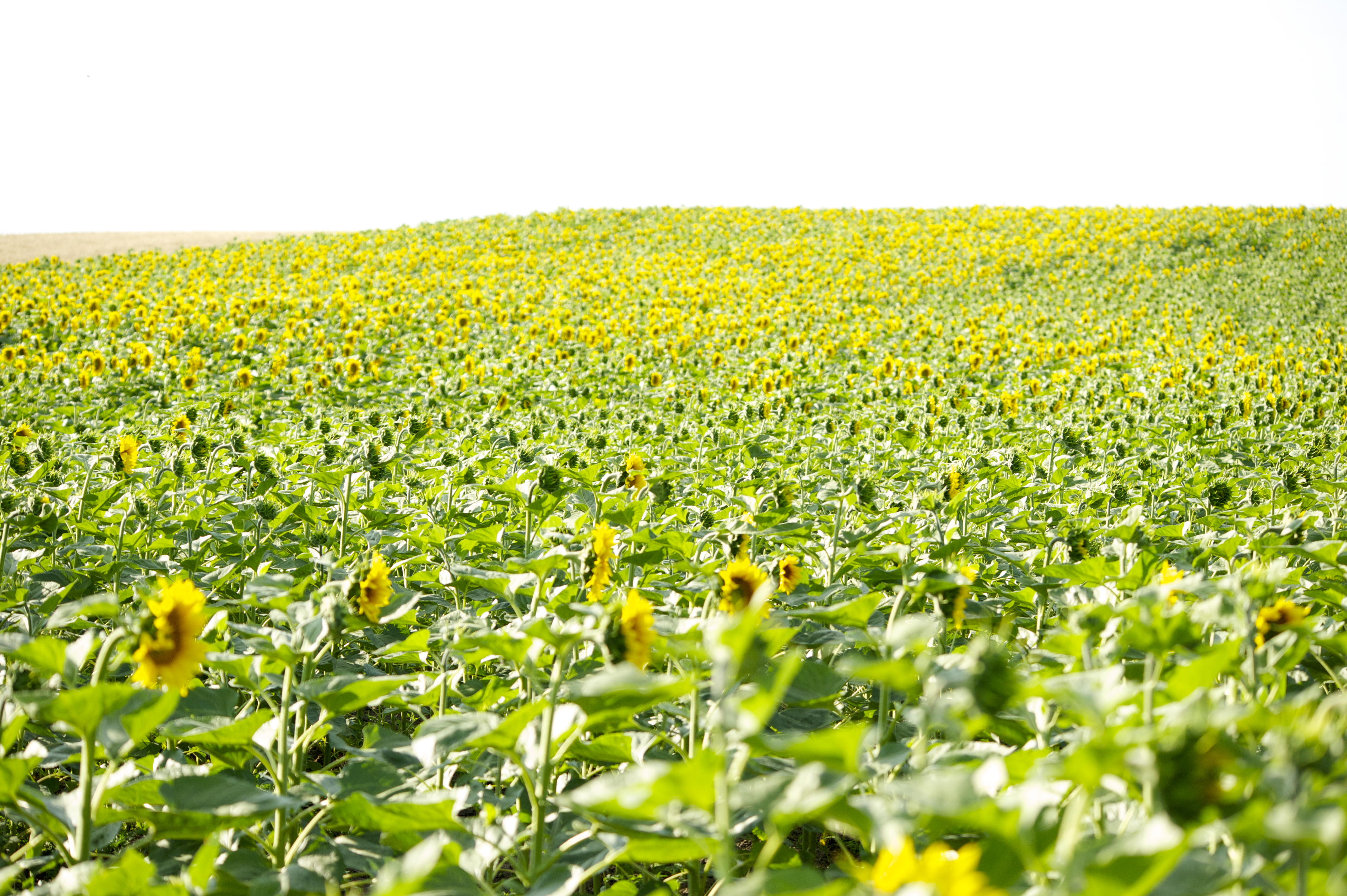 A sunflower field out on Miháshi út in Mindszent